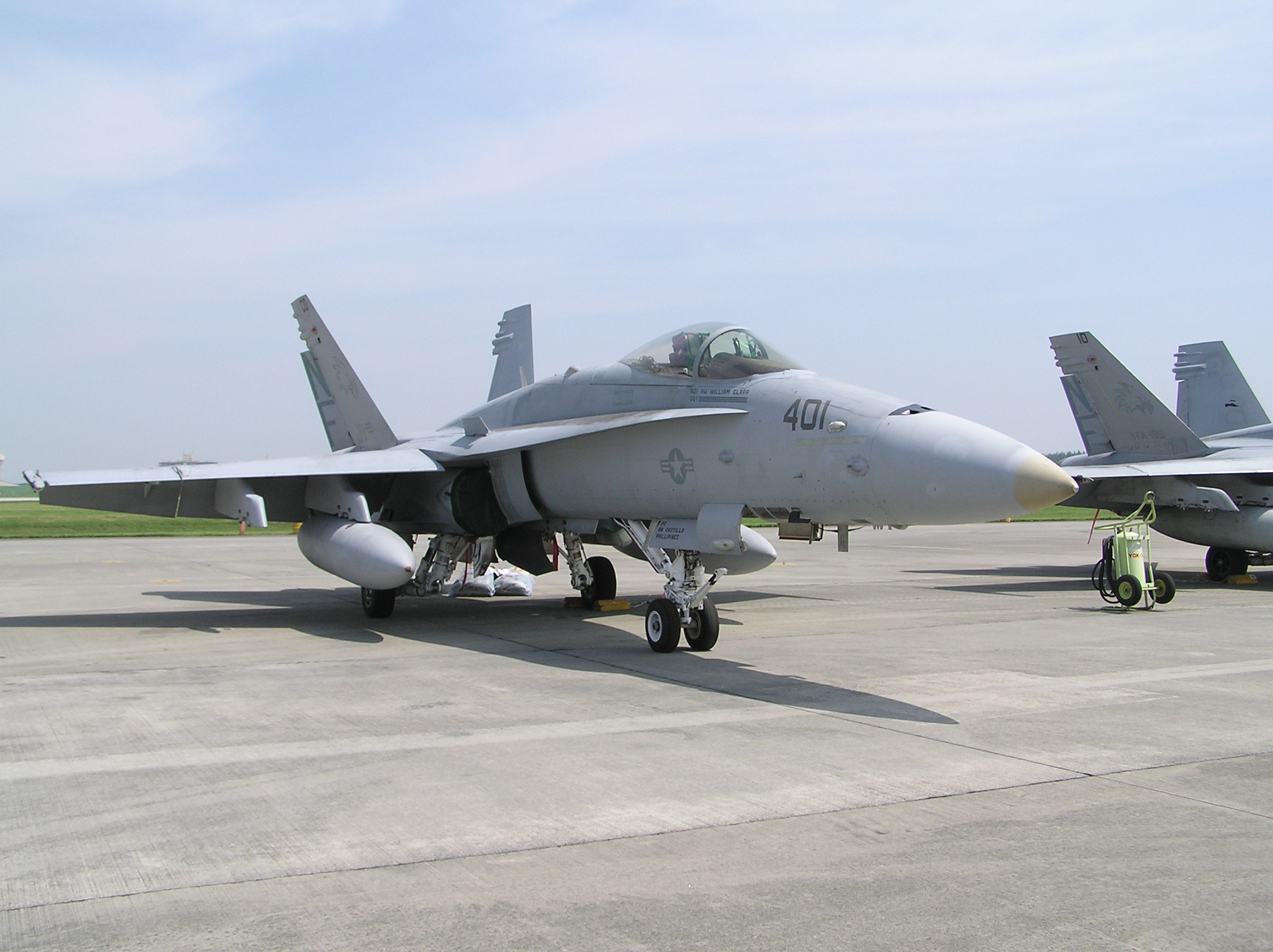 U.S. Air Force F/A-18 Hornet